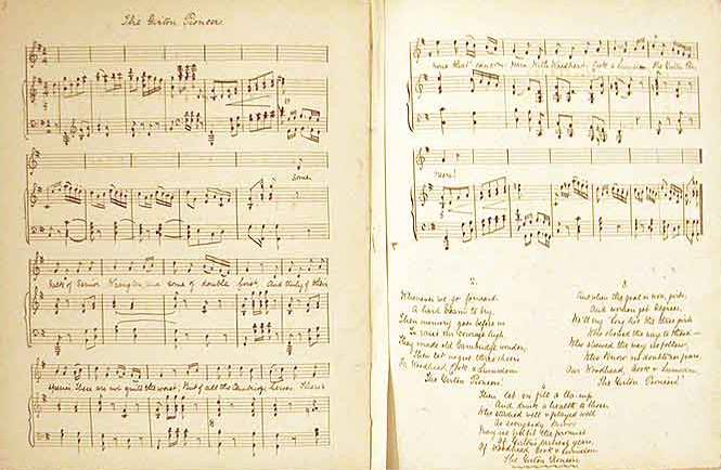 "The Girton Pioneers", In "Girton College songs" Cambridge, 1876–84. 8vo (29.2 cm, 11.5"). [2] ff., [86] pp, Manuscript on paper, in English